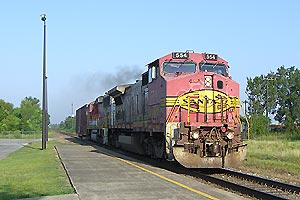 Lake Charles station visited in August 2008. Eastbound freight train.